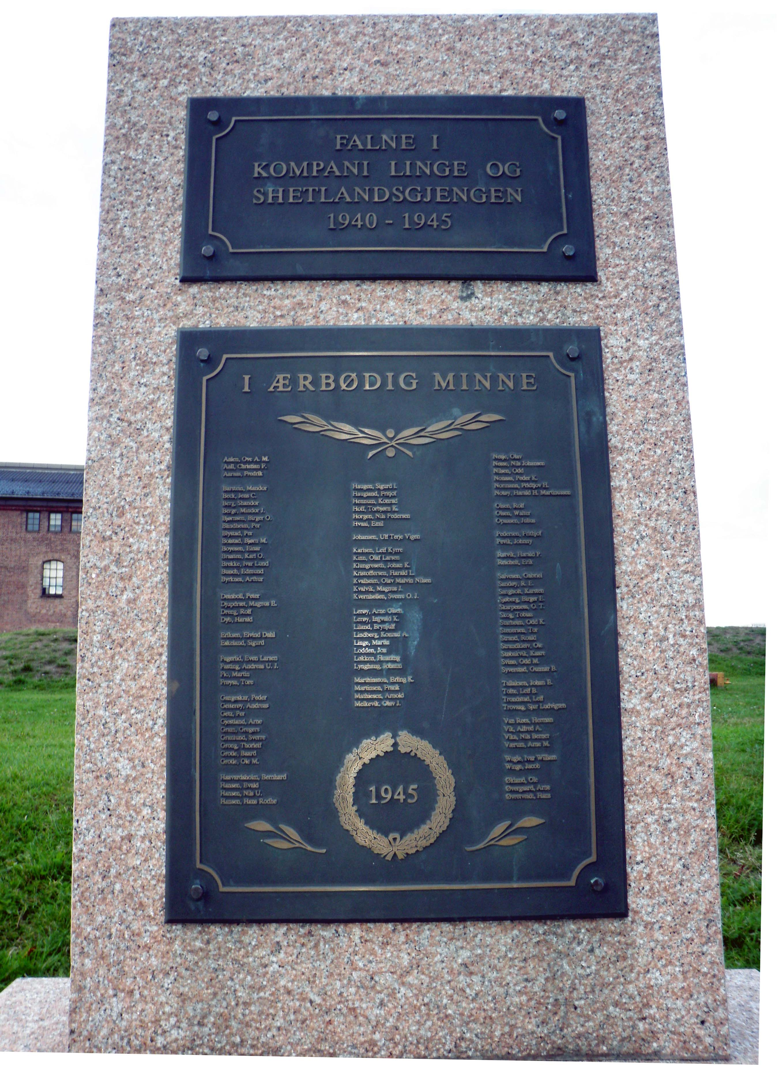 Memorial stone in memory of the members of the Norwegian Independent Company 1 (Kompani Linge) and the Shetland bus (Shetlandsgjengen) who were killed in the Second World War. The memorial is located next to the Armed Forces Museum at Akershus Fortress, in Oslo, Norway.